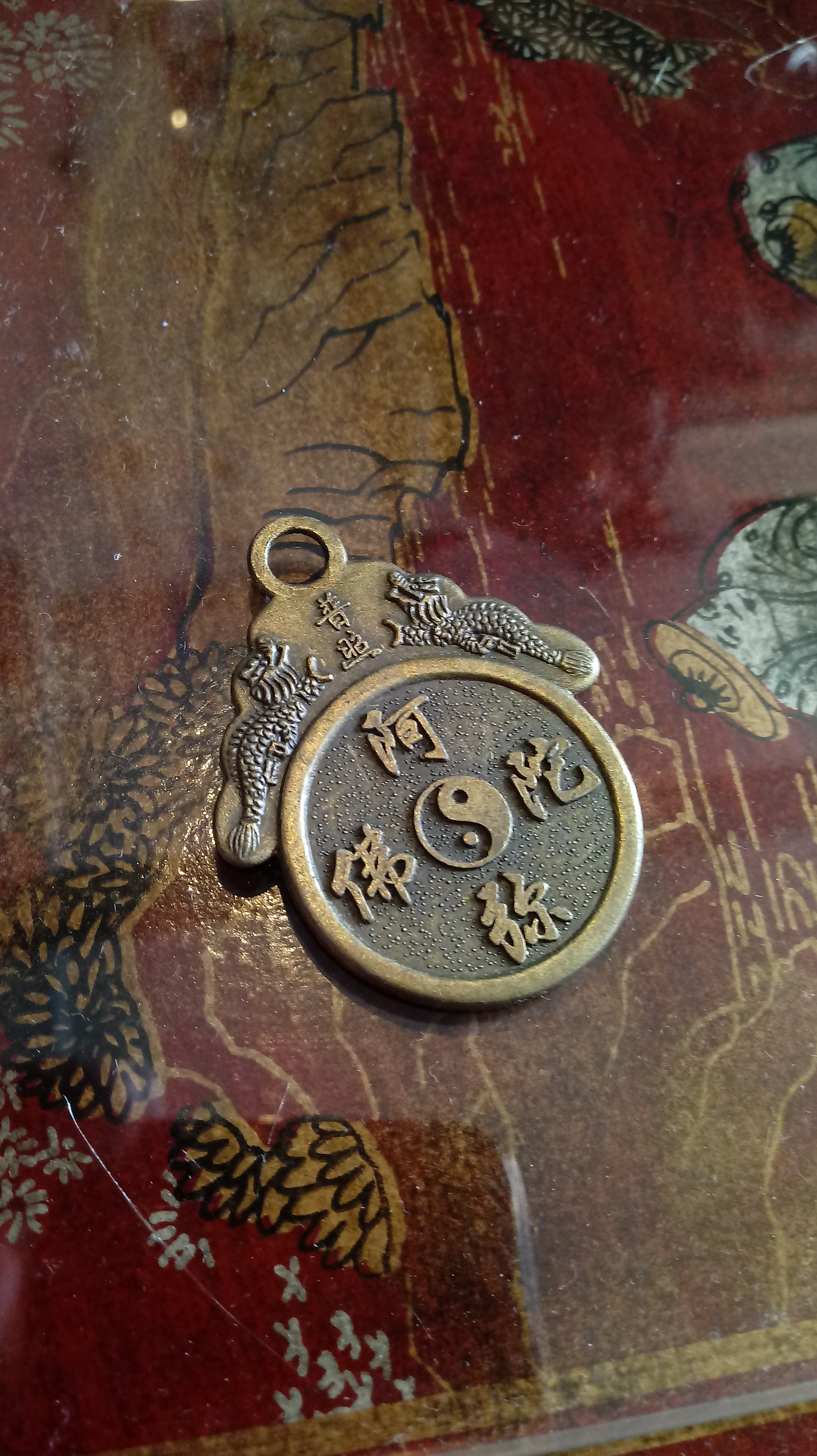 A Chinese Buddhist numismatic charm dedicated to the Amitābha Buddha for sale in a local jewellery shop in the city of Delft.